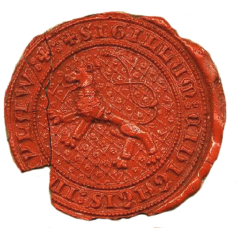 Jilové u Prahy, the city Seal of y.1350